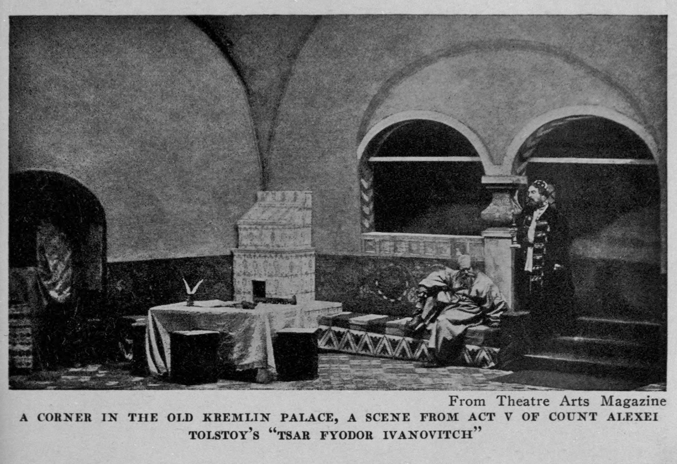 Fyodor Ivanovich by A K Tolstoy